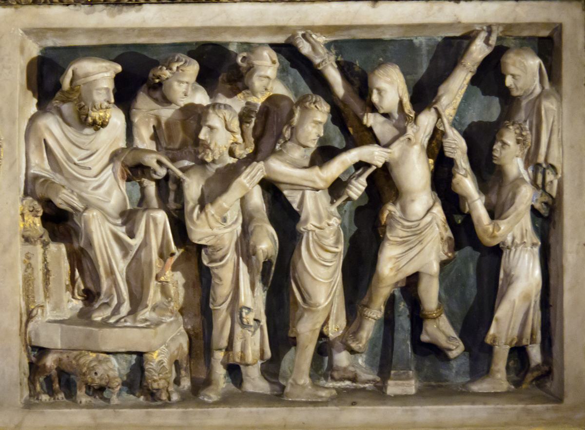 Right main panel with the third scene, depicting Eulalia on the cross where her flesh is teared apart with hooks under the presence of praeses Datianus. Created by an unknown sculptor from Pisa in the 14th century. (See here).